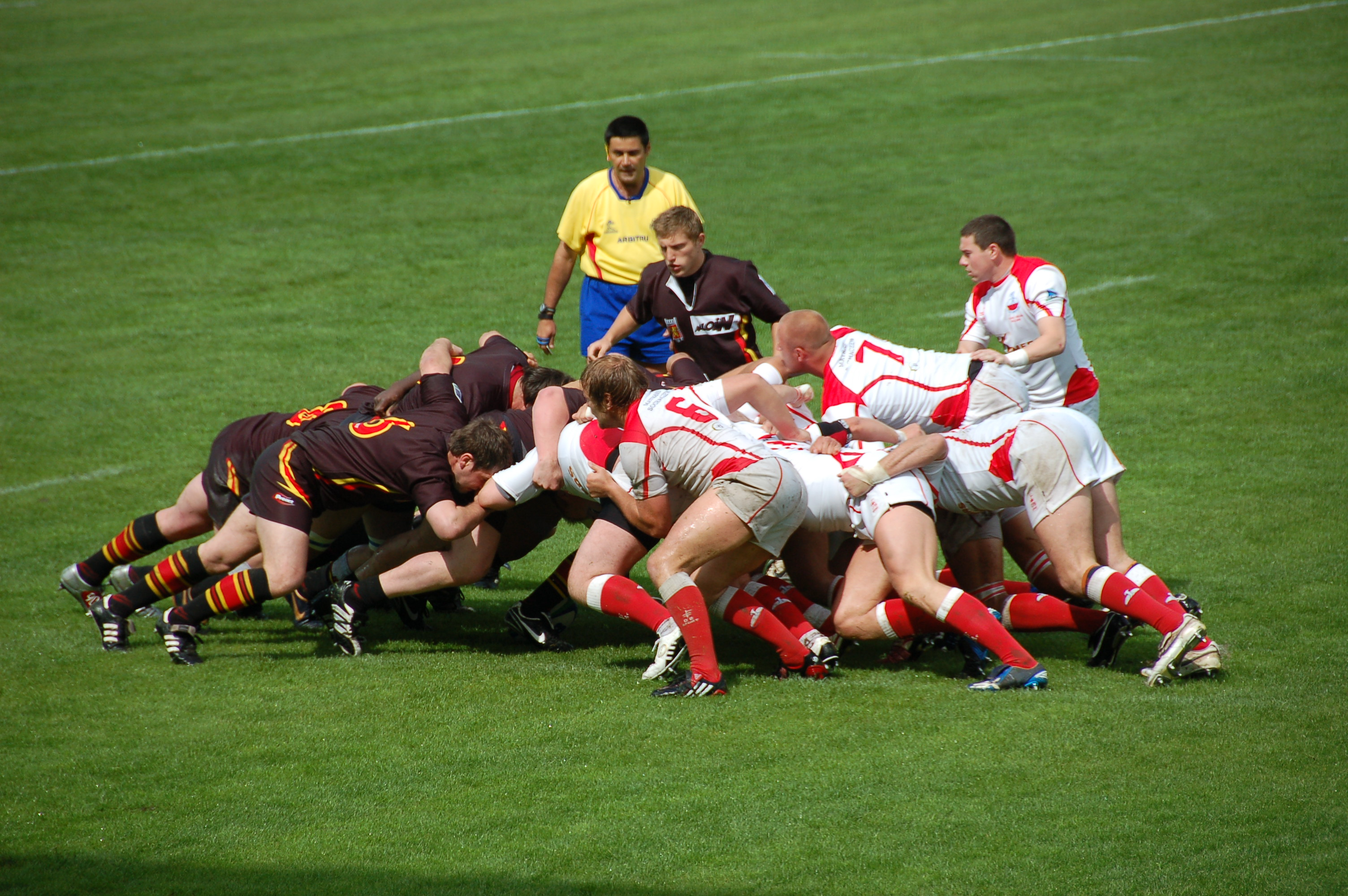 European Nations Cup Second Division Match between Poland and Belgium.